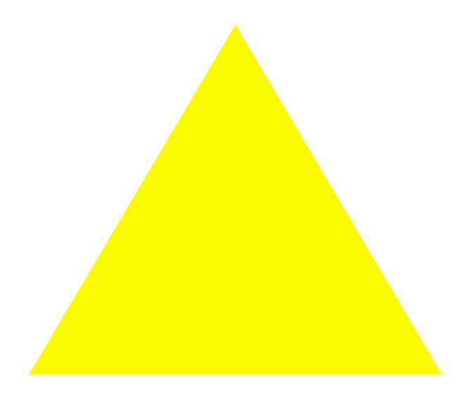 Insignia of 4th Army